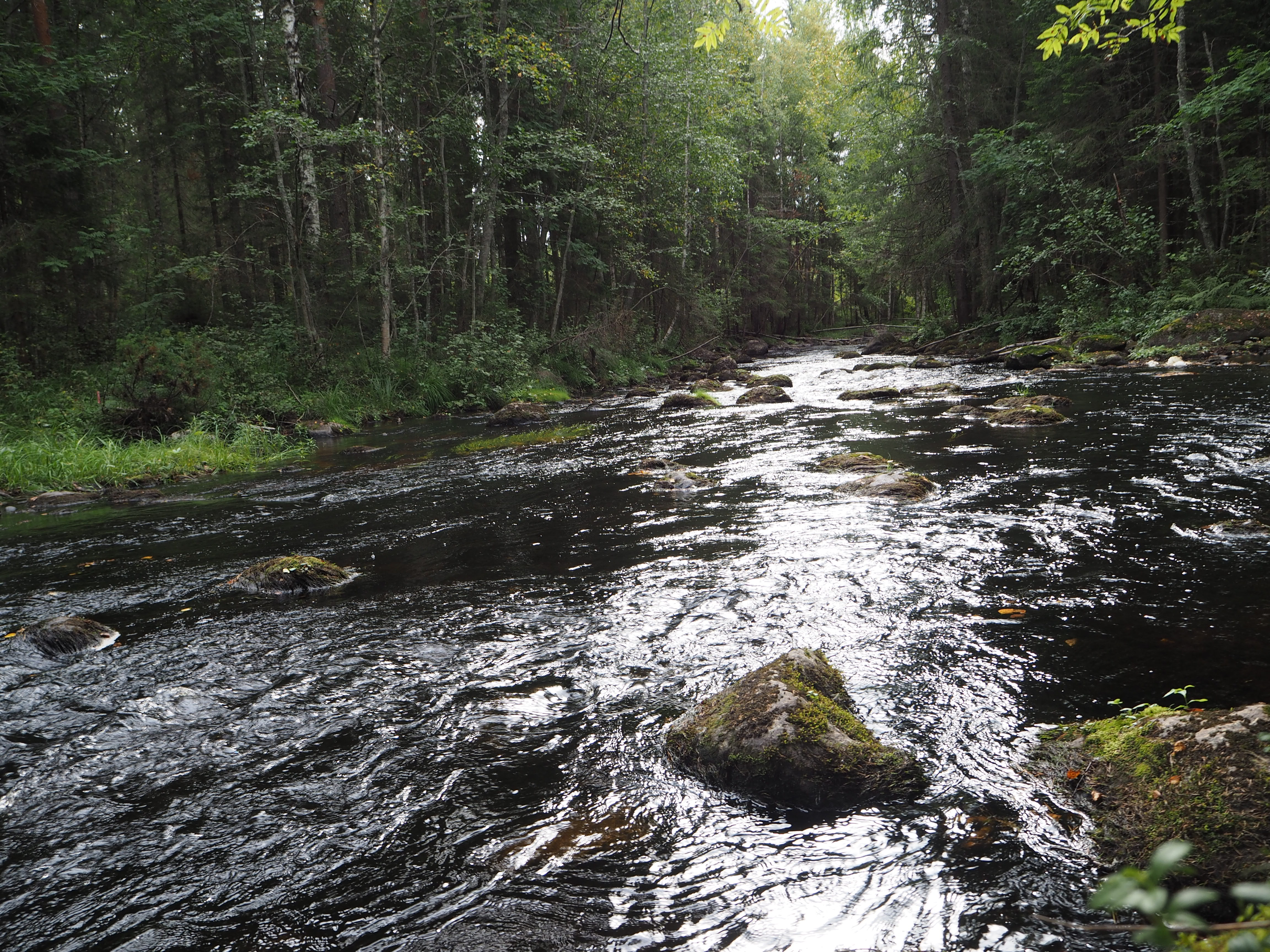 Stream of Könkköjoki in Petajavesi on the low-water season